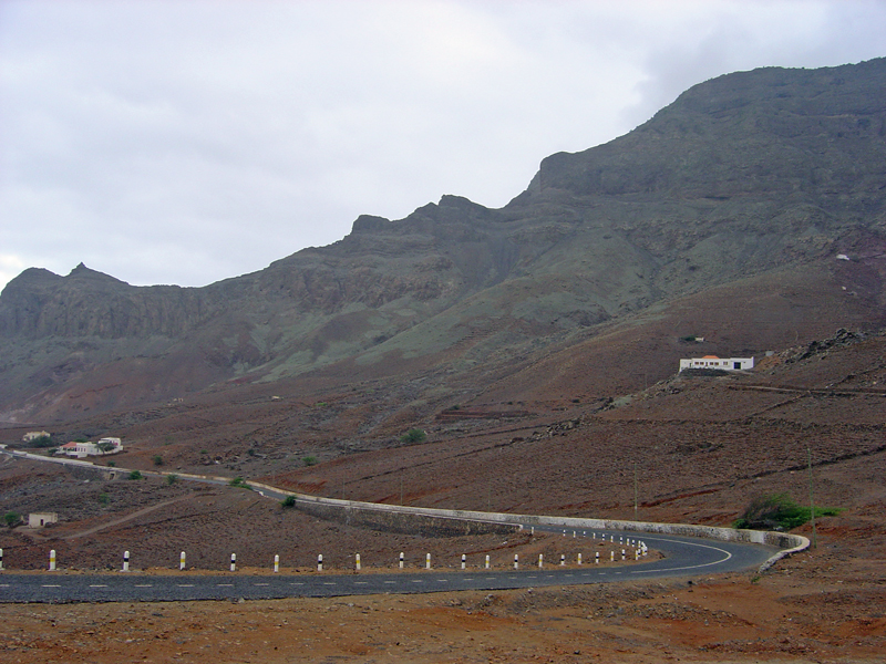 Pé de Verde, near Monte Verde, São Vicente Island, Cape Verde